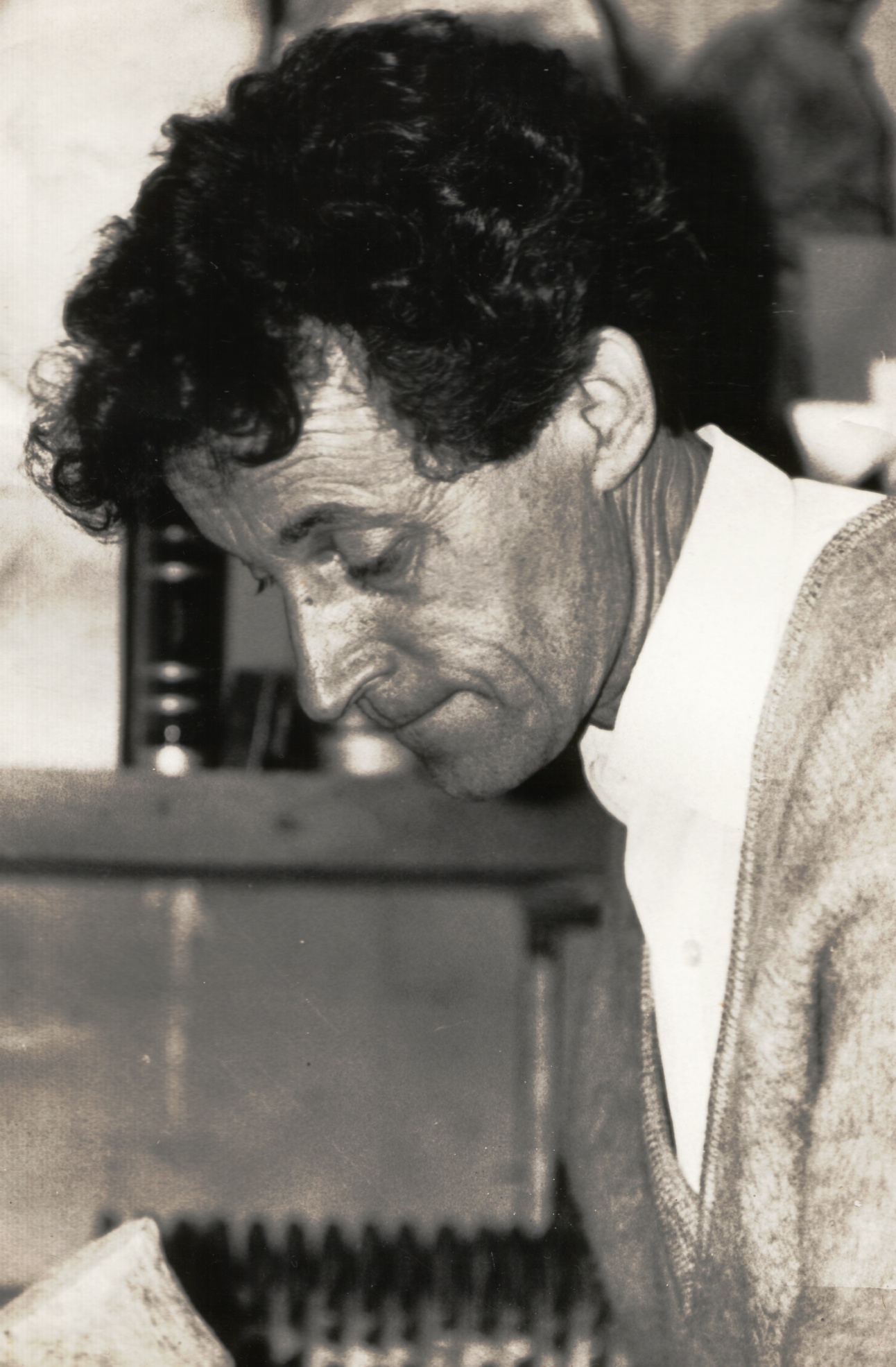 Vladimír Kýn (1923-2004) Czech sculptor, artist and illustrator, photo from 1965.